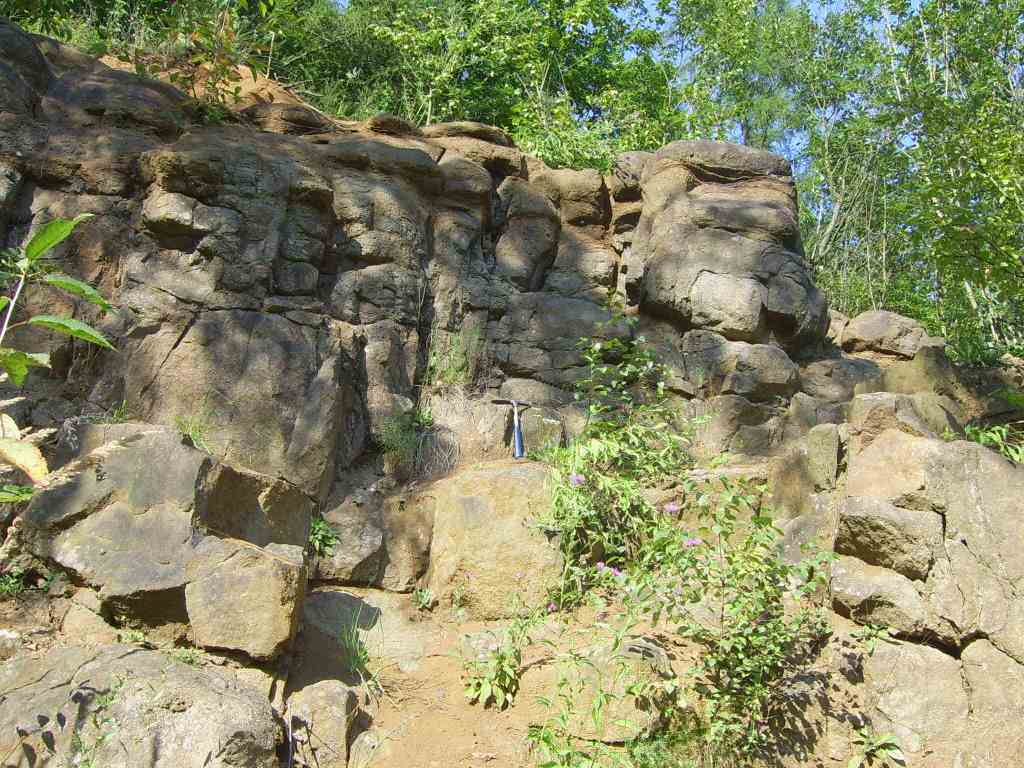 Žermanický lom natural monument – abandoned diabase quarry in Žermanice village, Czech Republic.